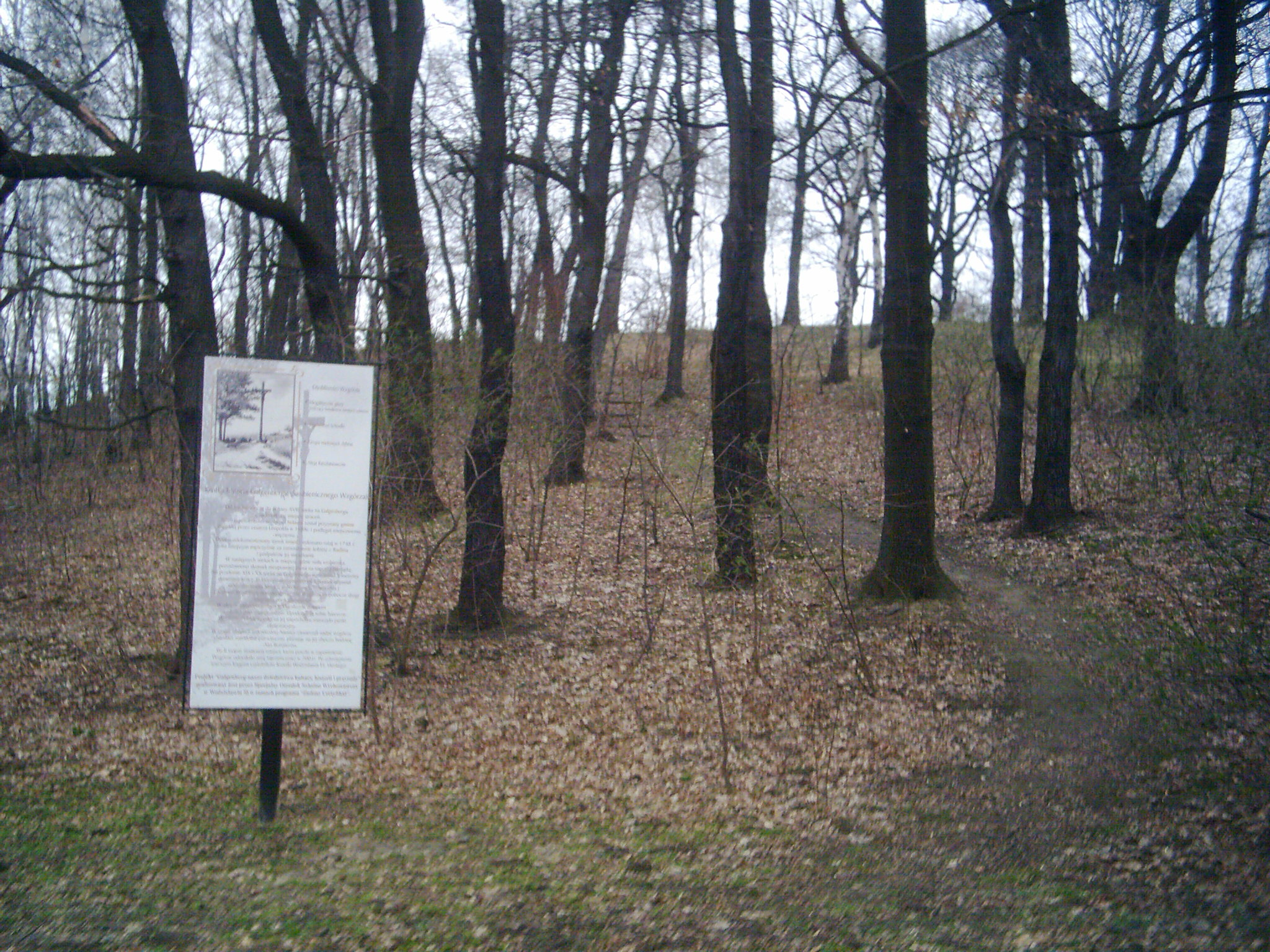 Mountain Galgenberg in Wodzisław